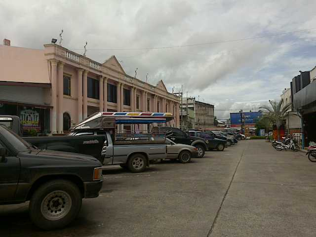 Victoria Center, Buriram